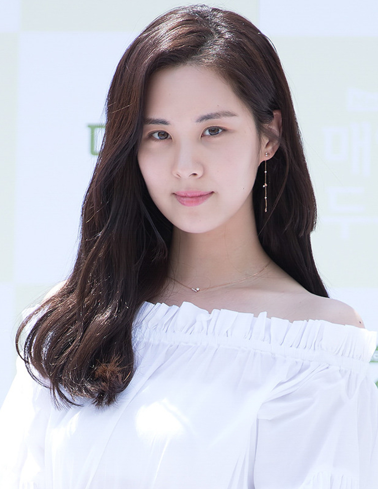 Seohyun at Seoul Forest Talk Show on June 3, 2017